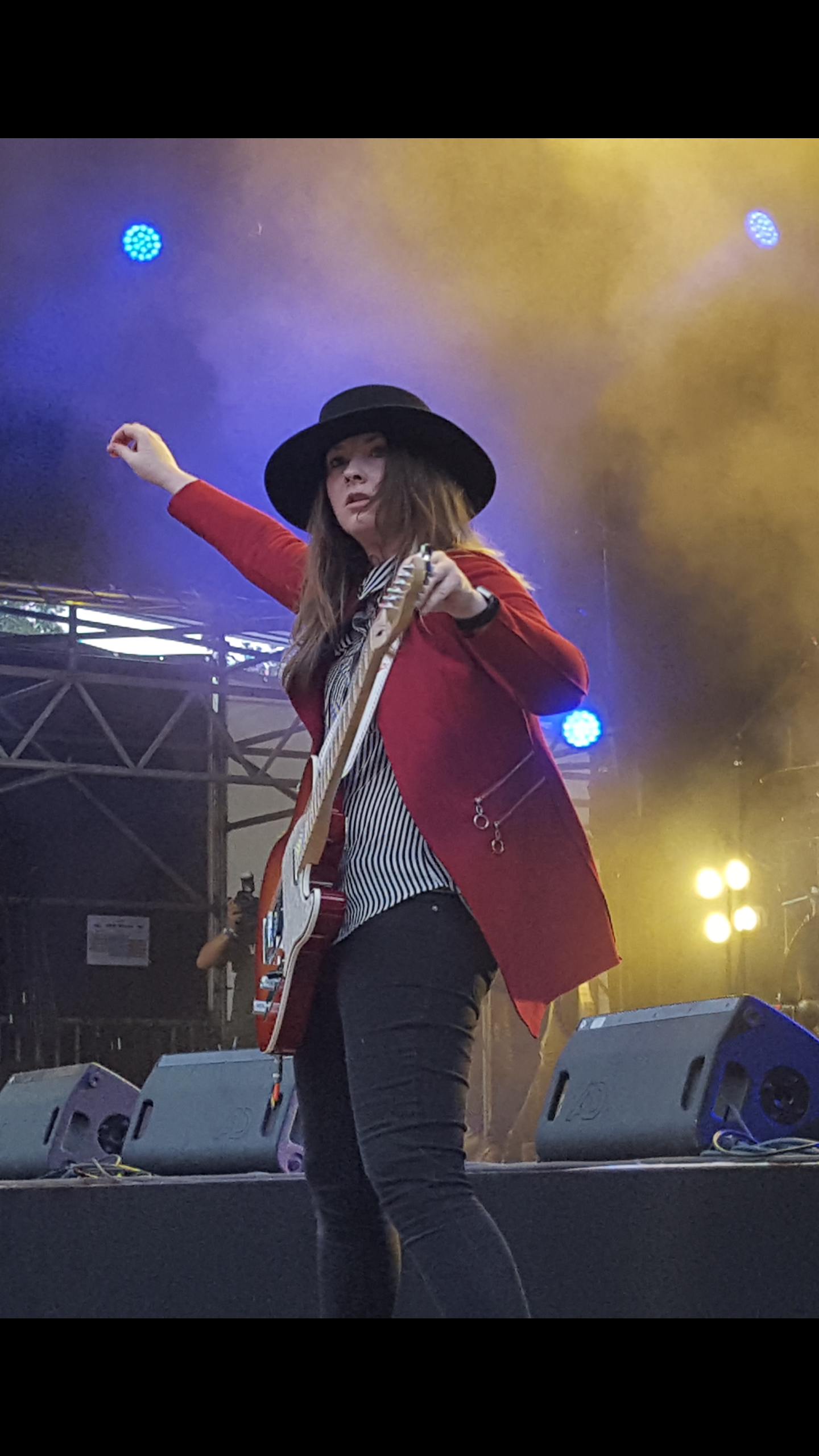 Laurie Buchanan, guitarist with Aaron Buchanan & The Cult Classics, The Amorettes and Tequila Mockingbyrd, performing in Germany, 27 July 2019